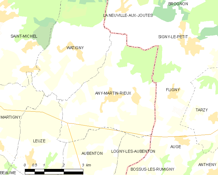 Map of French commune: Any-Martin-Rieux Map commune FR insee code 02020.png